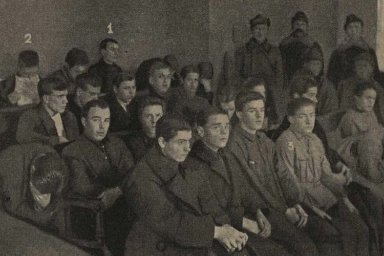 Defendants in the file of a mass rape («Chubarovsky process») on the court. Leningrad, 1926